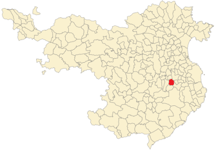 La Pera